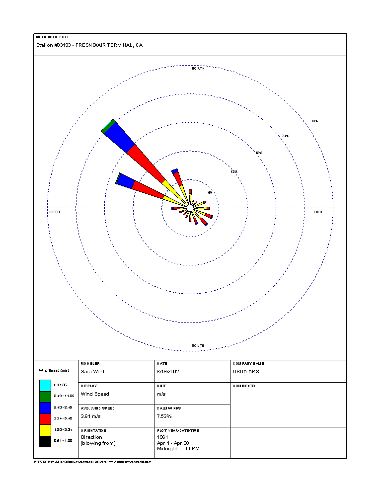 Wind rose plot, Station #83193, Fresno Air Terminal, Fresno, California